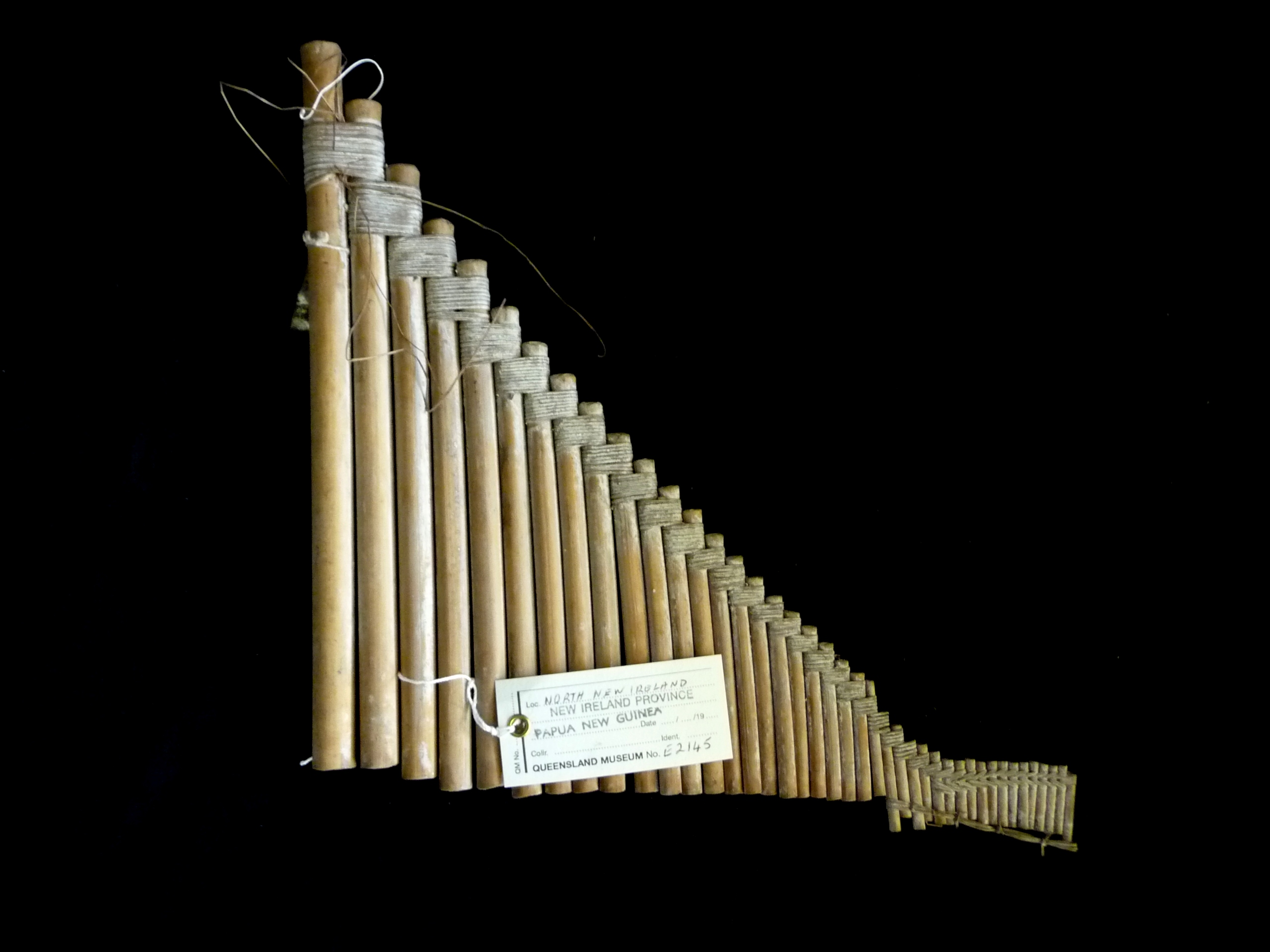 Wooden pipes made of thin bamboo are used for music making and ceremonies. Similar in design to large organ pipes, the length of each section affects the pitch and resonance of the sound it produces. This instrument was made in New Ireland province - an offshore island.